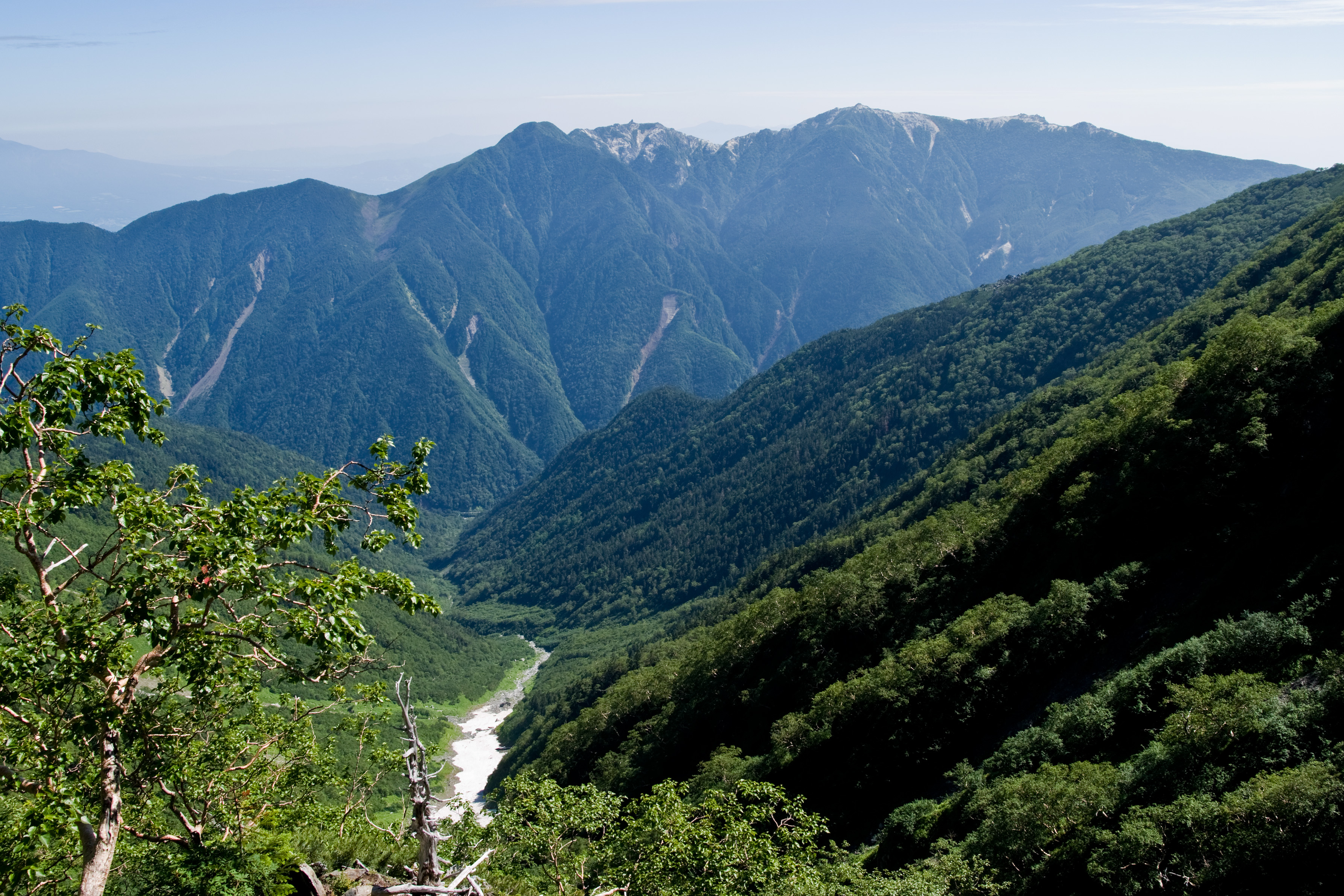 Mt. Hō-ōsan and Mt. Takane as seen from Ōkambazawa, Yamanashi Pref., Japan.